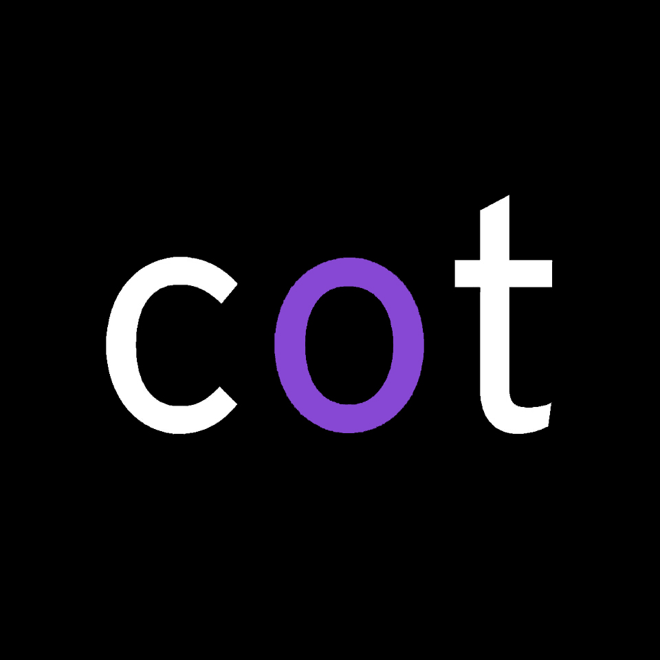 Chicago Opera Theater logo (2017)